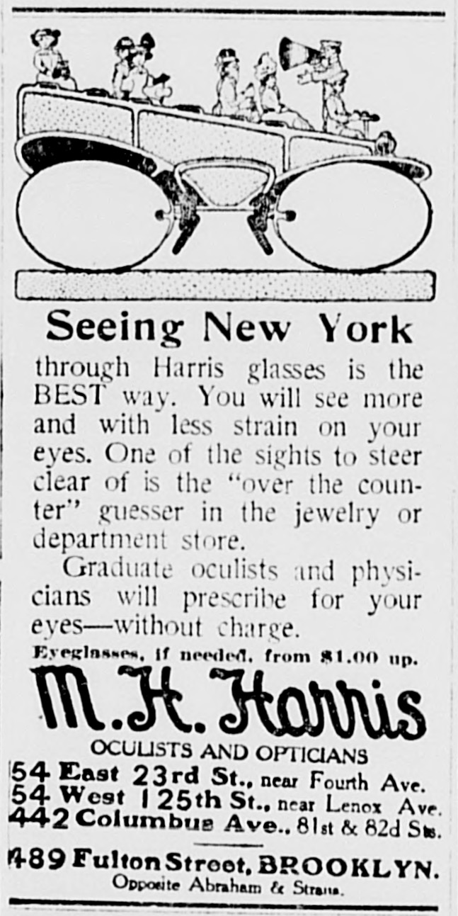 "Seeing New York through Harris glasses is the BEST way. You will see more and with less strain on your eyes. One of the sights to steer clear of is the "over the counter" guesser in the jewelry or department store. Graduate oculists and physicians will prescribe for your eyes – without charge. Eyeglasses, if needed, from $1.00 up. M.H. Harris, OCULISTS AND OPTICIANS. 54 East 23rd St., near Fourth Ave. 54 West 125th St., near Lennos Ave. 442 Columbus Ave., 81st & 82d St. 489 Fulton Street, BROOKLYN. Opposite Abraham & Strauss." Page 5.